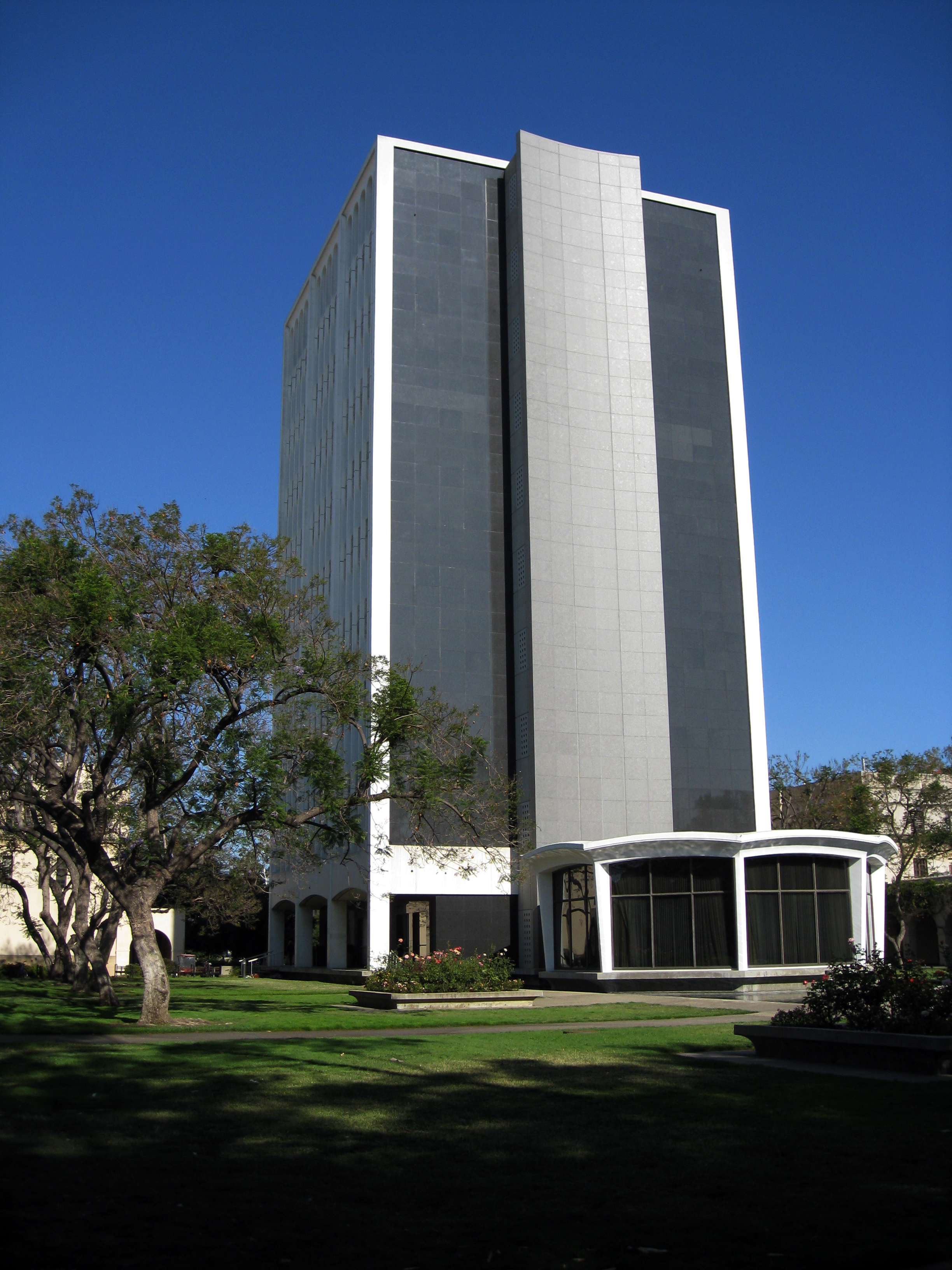 Photo of Caltech's Millikan Building